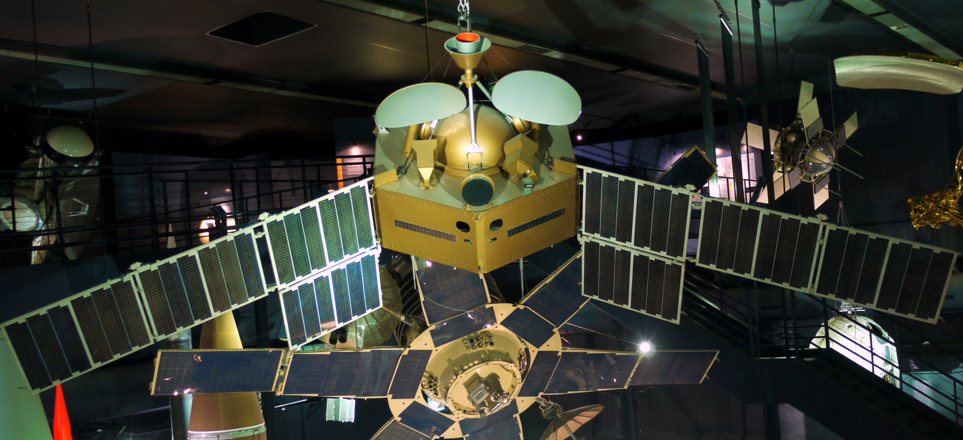 Mockup of the first french-german communication satellite Symphonie 1 (1974), Museum of Air and Space Paris, Le Bourget (France)